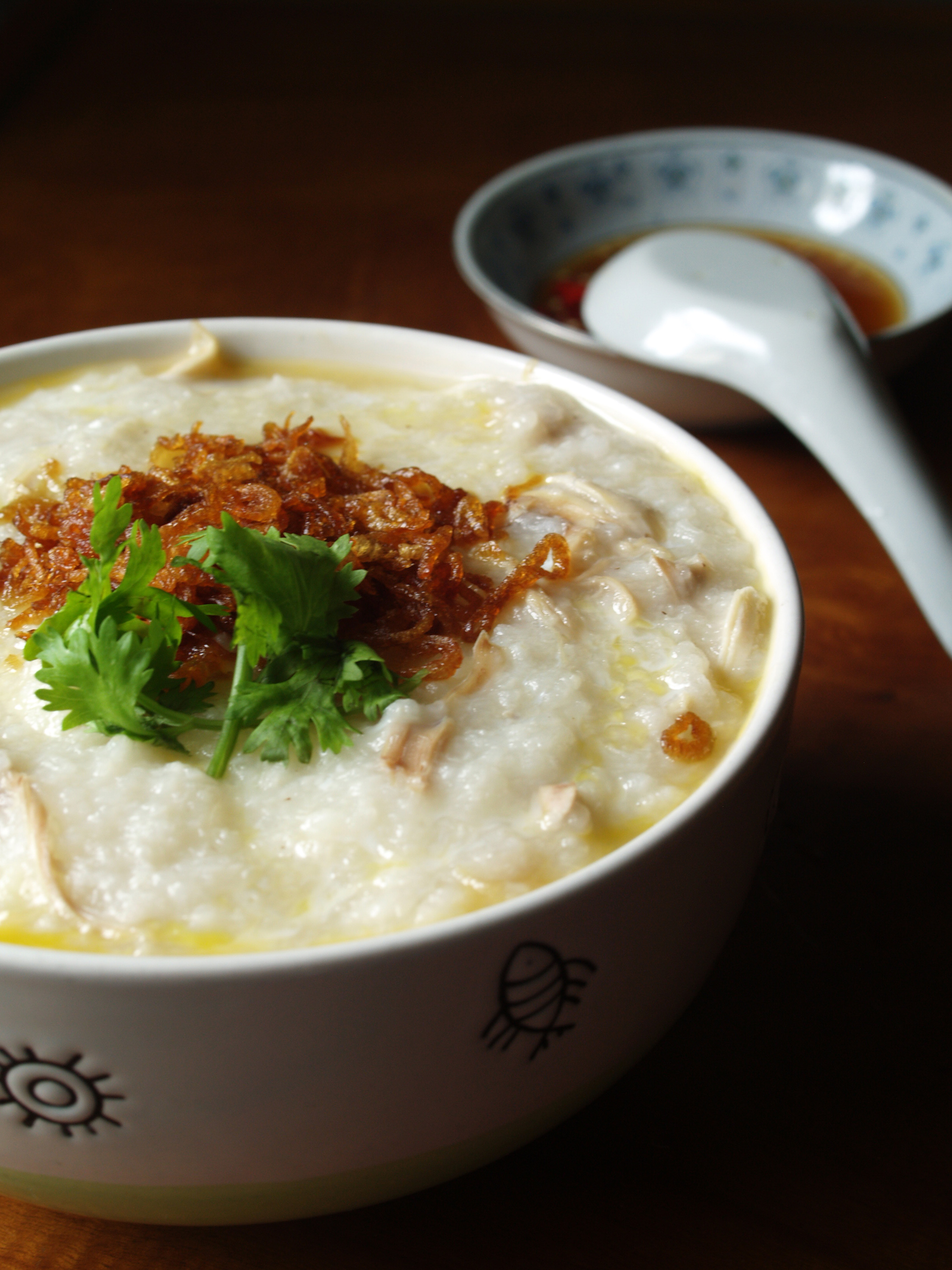 I had this for lunch today. A bowl full of protein and carbs. Chicken congee, with egg, fried shallot and chinese parsley. Oh yes, not to forget those hot chillis by the side with light soy sauce. (; Found in-Mummy's kitchen. ;D